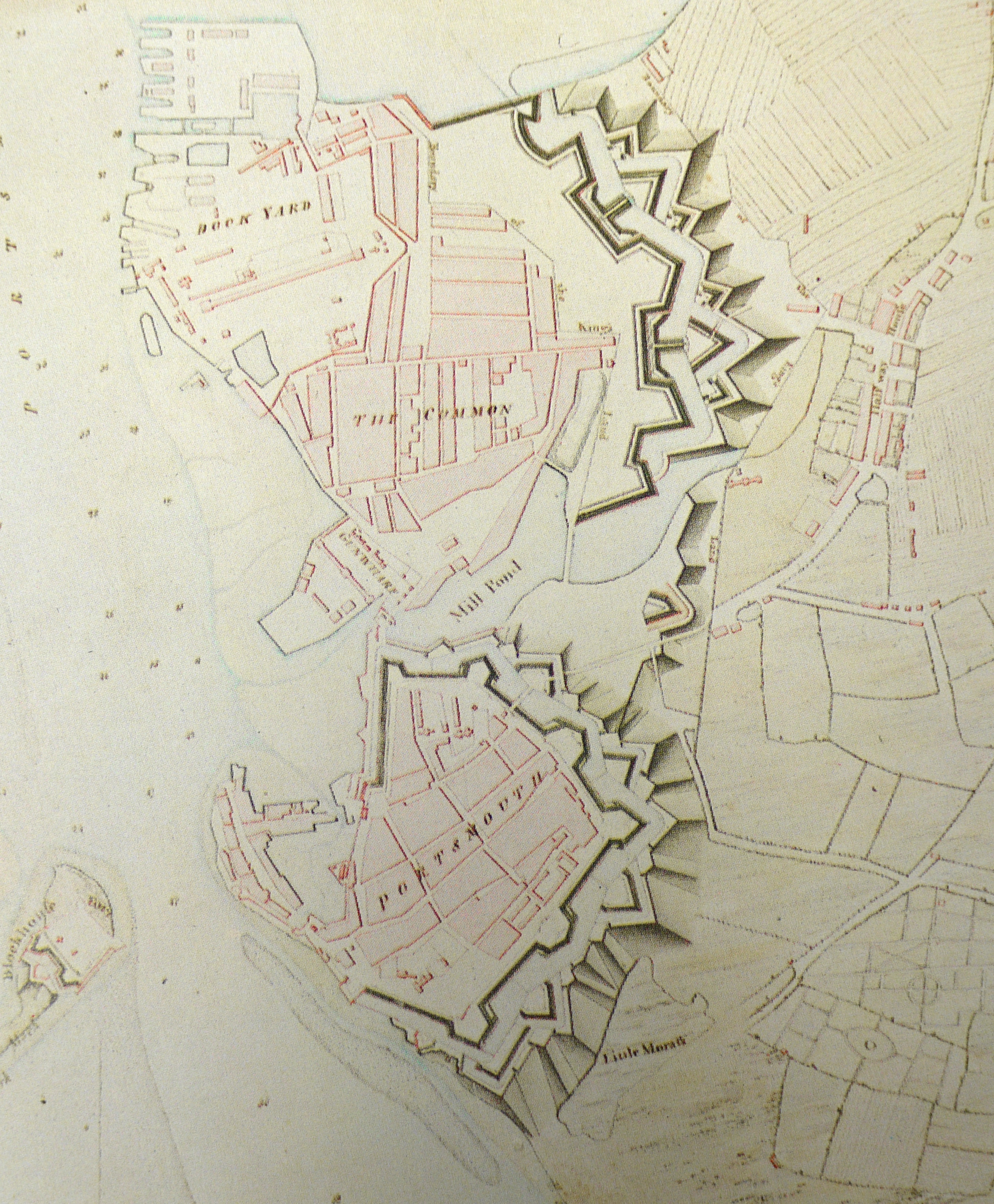 A drawn plan of the island of Portsea, shewing the present Fortifications of Portsmouth, Gosport, Lines and Out Forts, together with the Works now carrying on to secure the Dock Yard; with the Entrenchments proposed by Major Archer for defending the Island, 1773" per Catalogue of Maps, Prints, Drawings, Etc. v.2 British Museum Dept. of Printer Books, King's Library